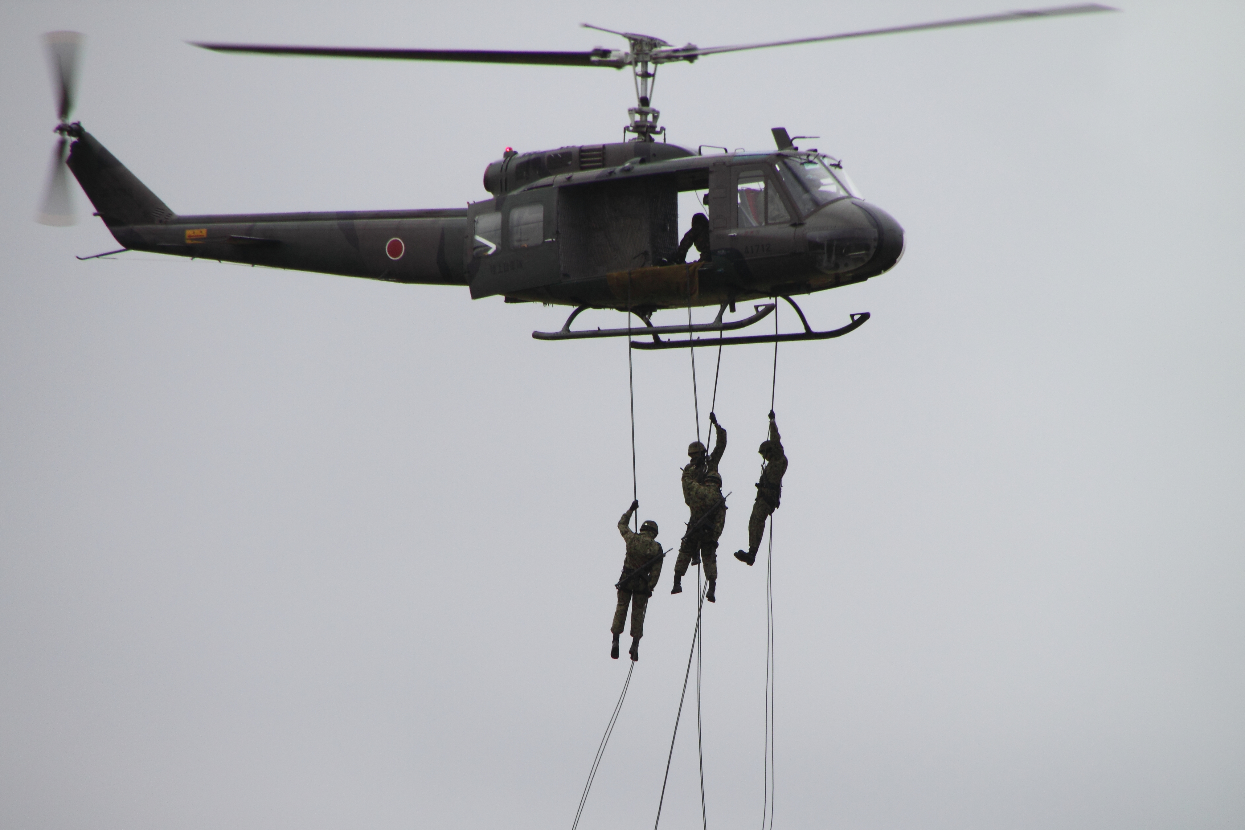 JGSDF soldiers abseil from a JGSDF UH-1H chopper.